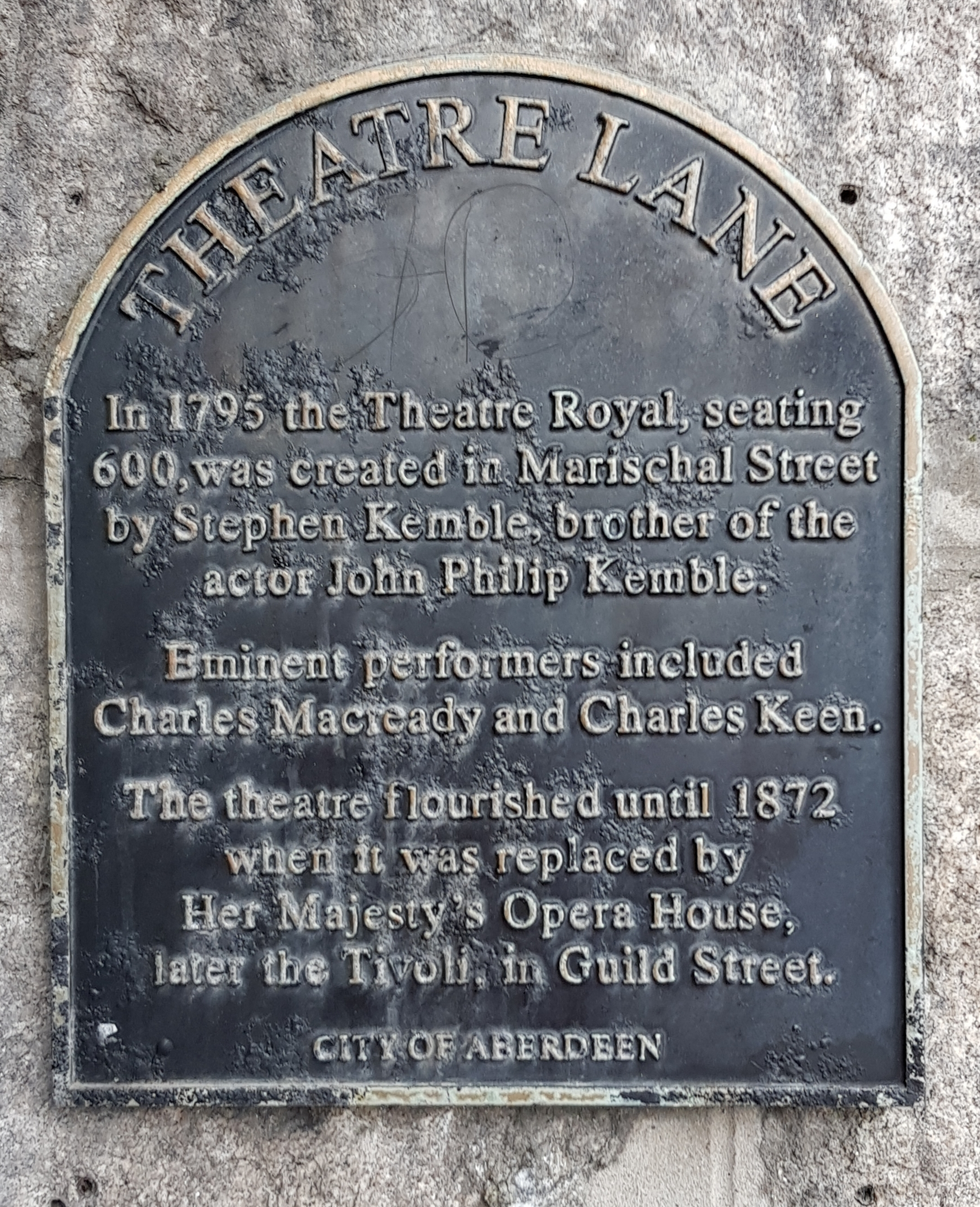 Commemorative plaque to Theatre Lane, Aberdeen